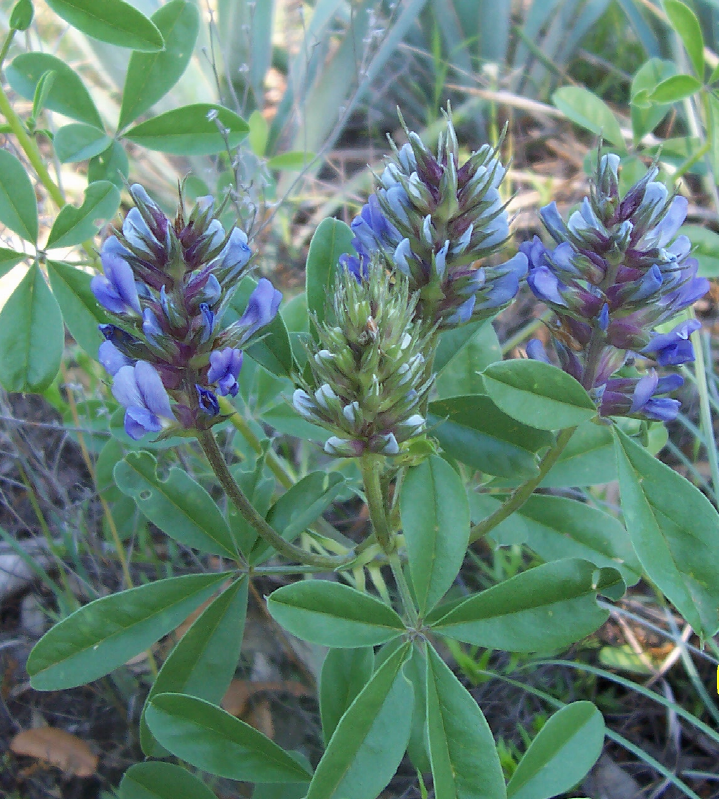 Picture I took in Wildcat Canyon, Tarrant County, Texas USA, April 2007